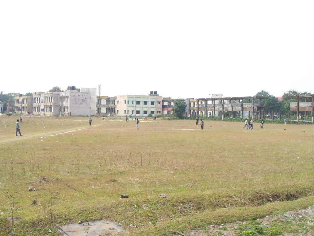 Playground behind the Medical dept of North Bengal Medical College